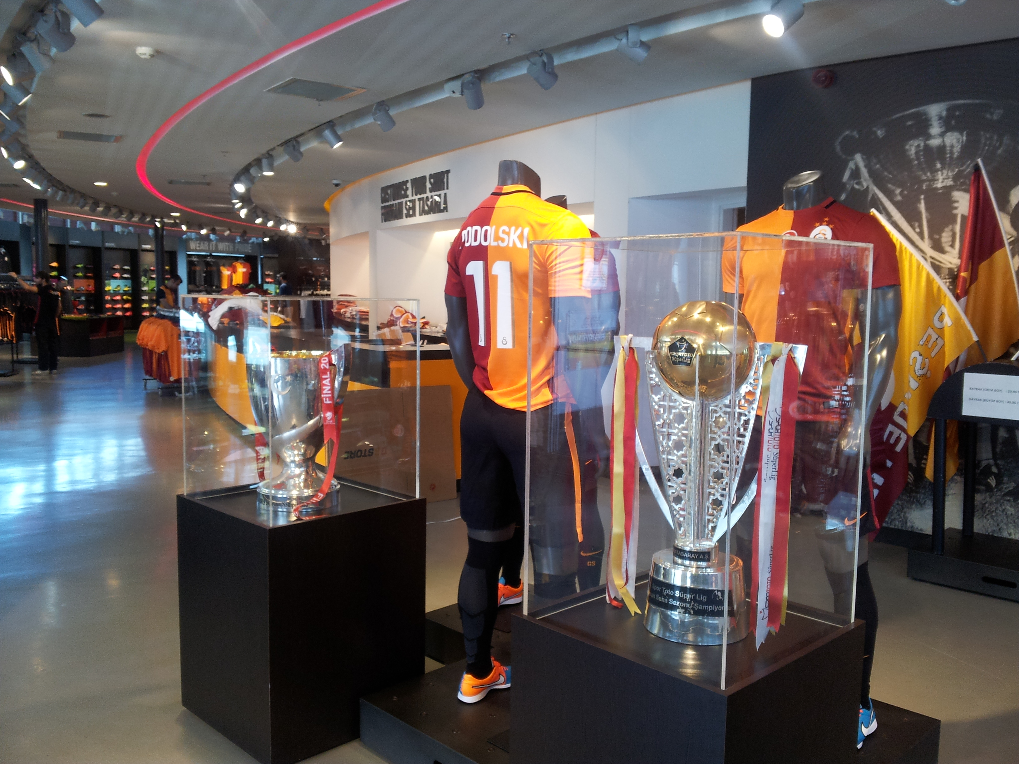 2014–15 Süper Lig Cup & 2014–15 Turkish CupTürkçe: 2014-15 Süper Lig ve 2014-15 Türkiye Kupaları